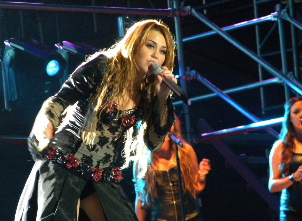 Pop singer Miley Cyrus performing in São Paulo, Brazil as part of her Gypsy Heart Tour in 2011.